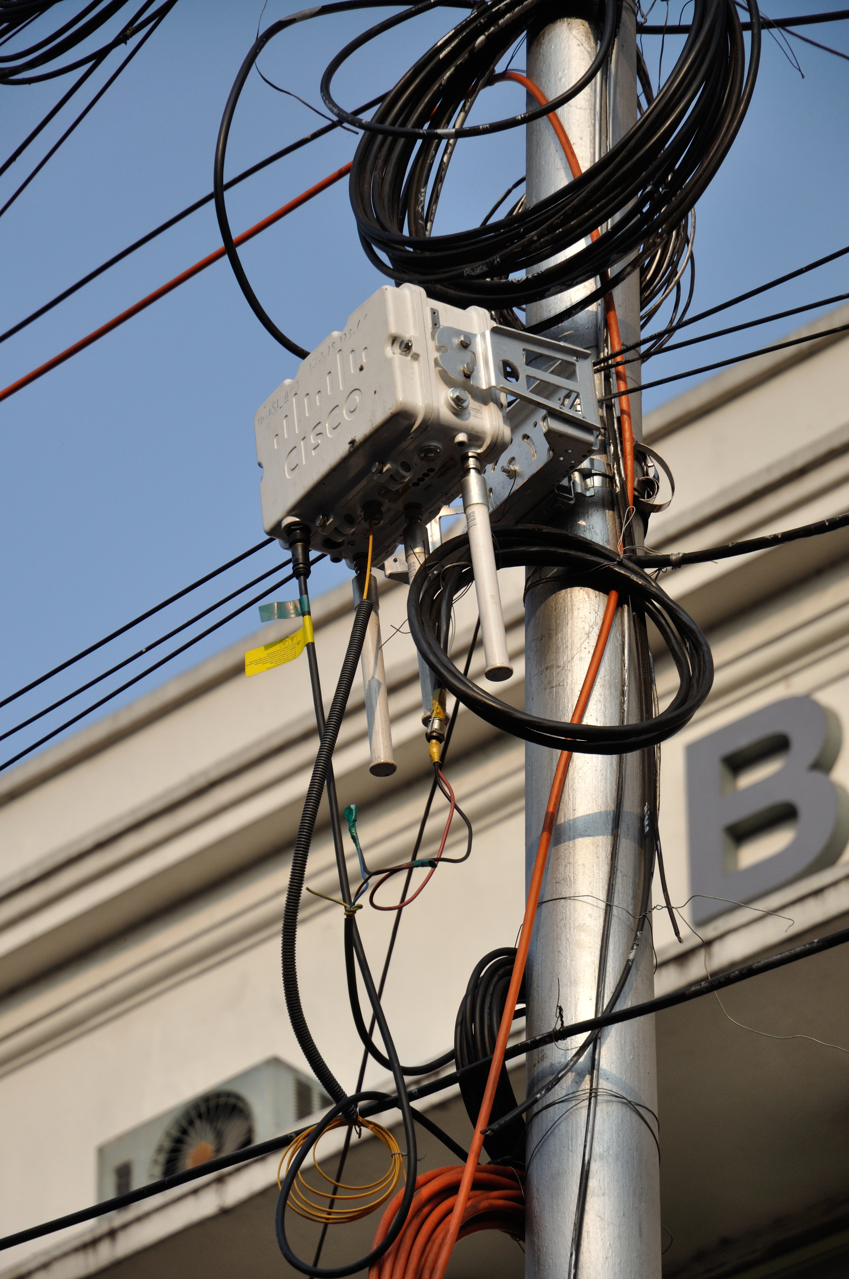 Photographed in Kolkata.